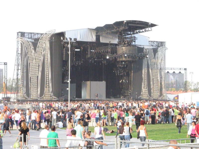 Madonna's stage in Kincsem Park, Budapest